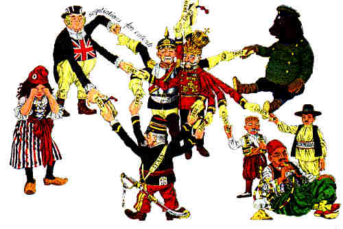 Political cartoon depicting the tangled web of European alliances of the late 19th century. Note Marianne, representing France, crying alone in the bottom-left corner thanks to German chancellor Otto von Bismarck's (pictured in the center) successful attempts to keep her isolated from the rest of the European powers. More information about this picture is welcome. Discuss it on the talk page. Thanks--victor falk 15:14, 2 November 2007 (UTC)